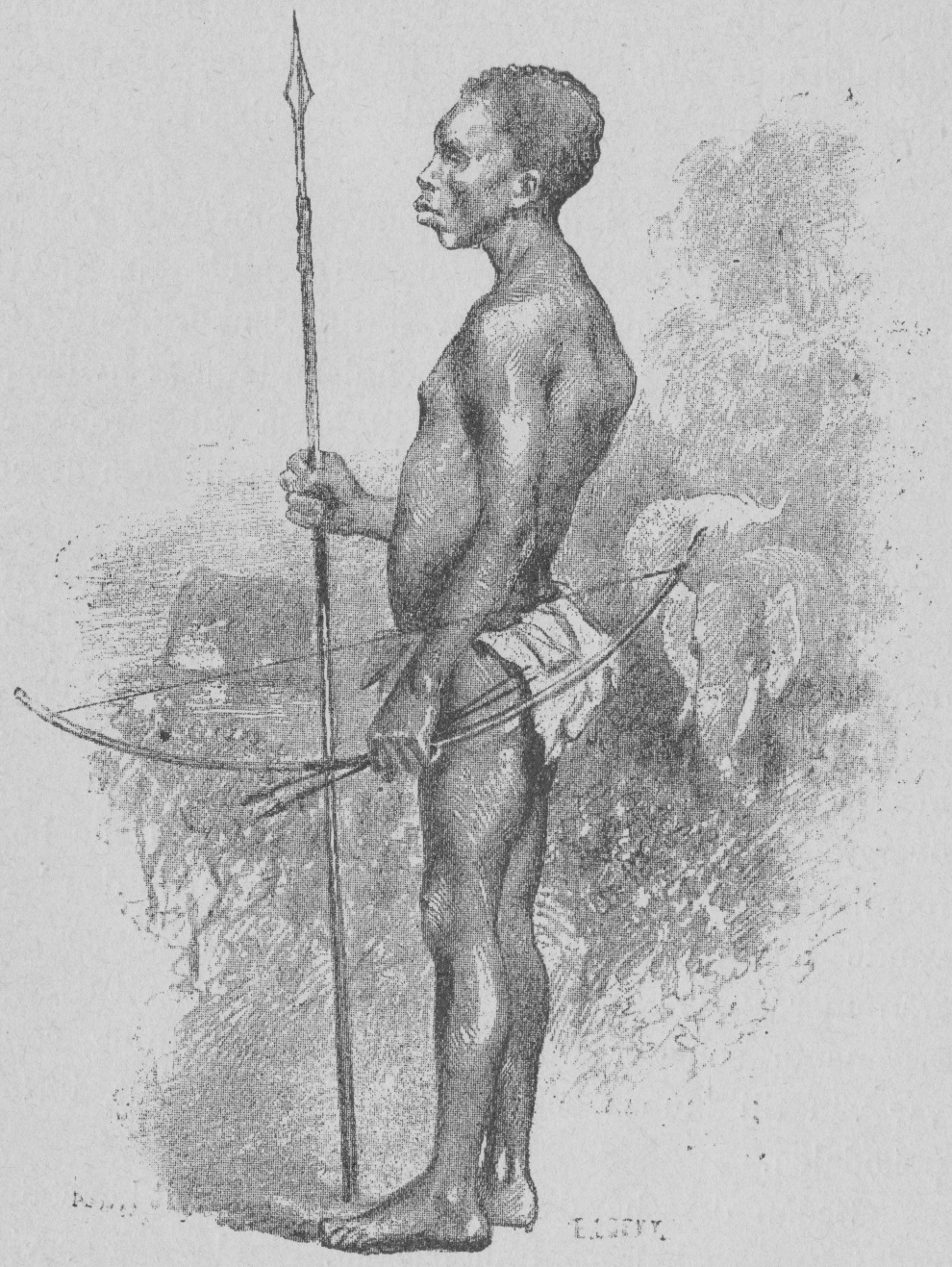 Pygmy from Aruwimi. From the book "Stanleys expedition till Emin Paschas undsättning" (1890) Author: Alphonse-Jules Wauters Translator: Oscar Heinrich Dumrath